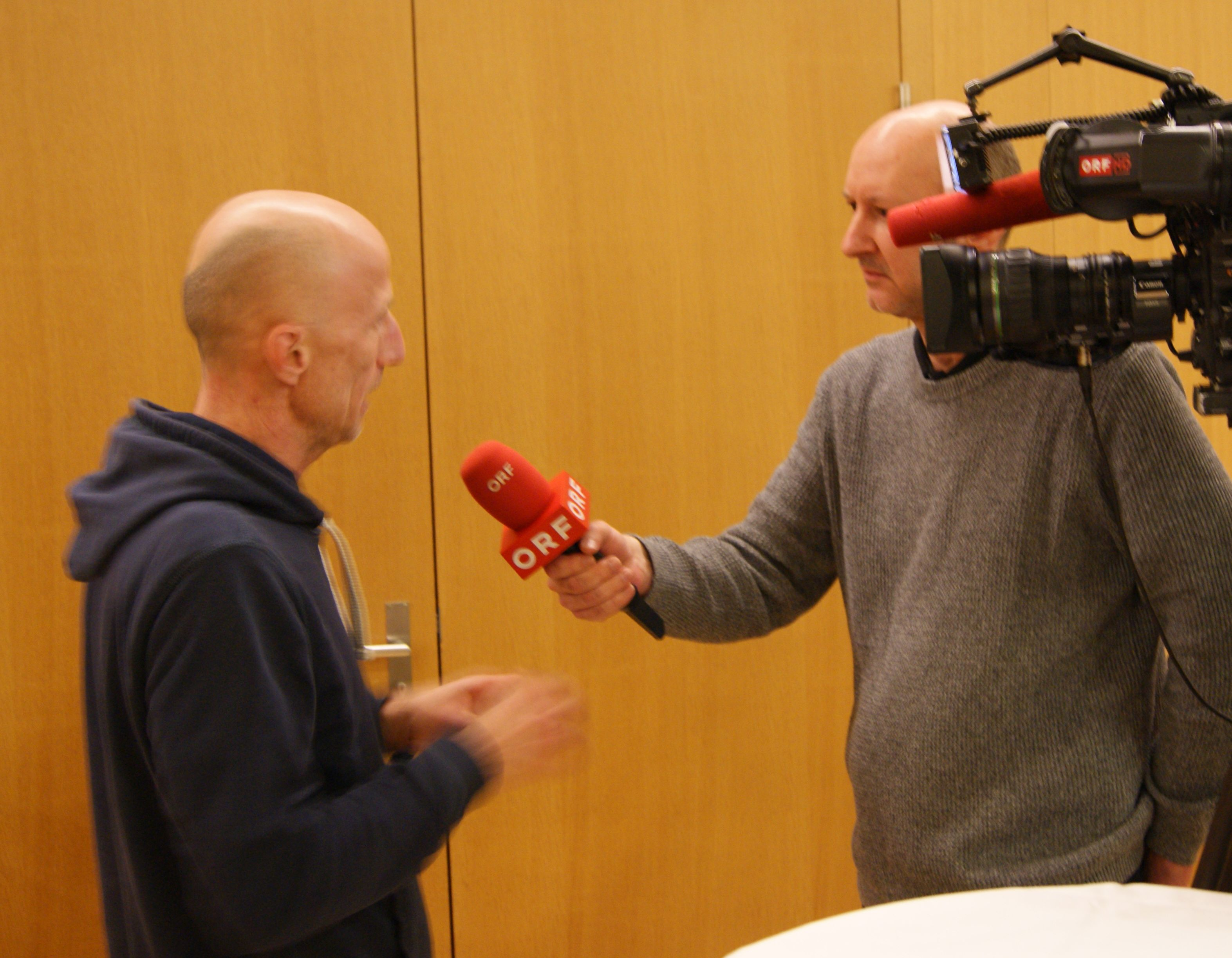 Andreas Peham (* 1967 in Linz) is an Austrian researcher to Right-wing extremism and anti-Semitism. He also publishes under the name Heribert Schiedel. Picture taken on the occasion of the lecture: "Current developments of right-wing extremism and the situation in Vorarlberg" in Götzis, Ambach, Vorarlberg.